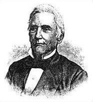 Lucius Elmer, US Representative from New Jersey